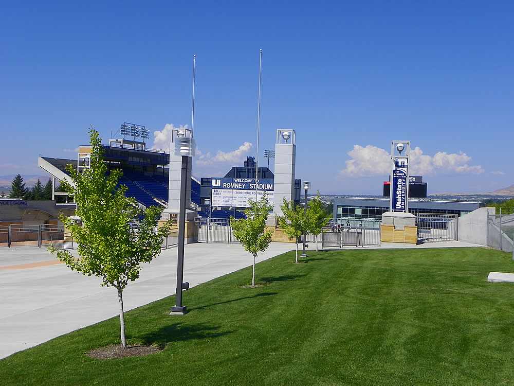 Romney Stadium, on the main campus of Utah State University, home of the Aggies, in Logan, Utah.